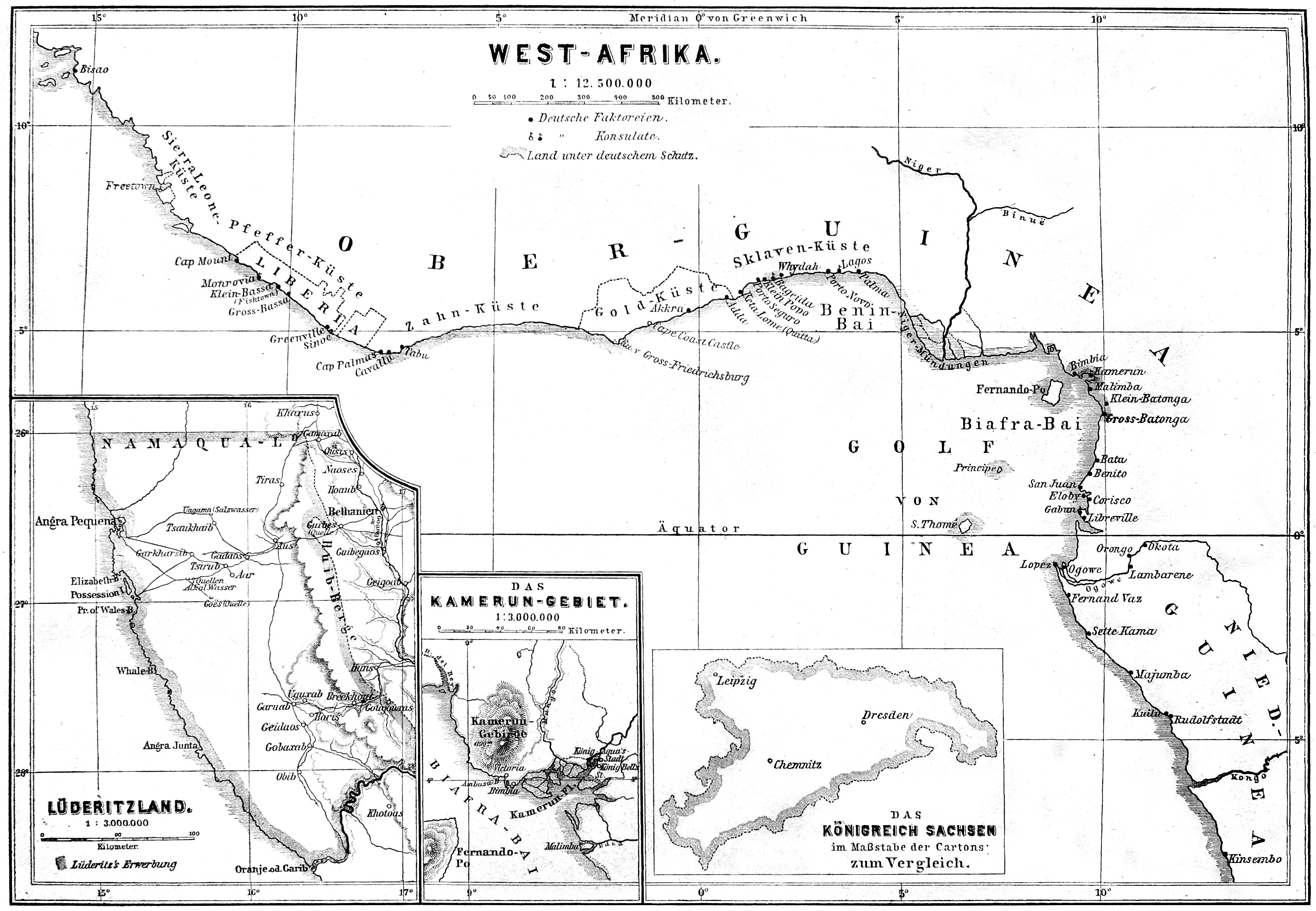 no caption